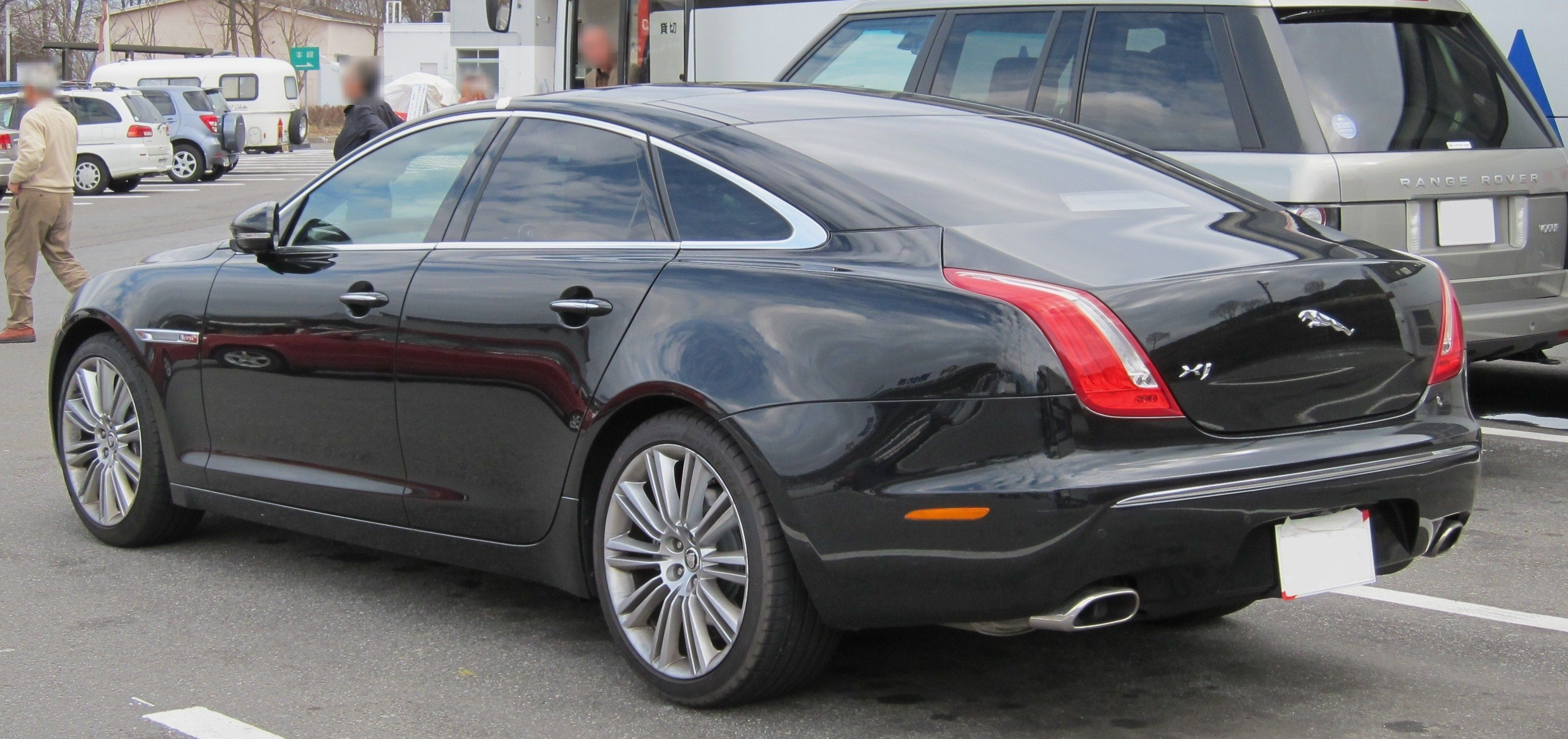 Jaguar XJ